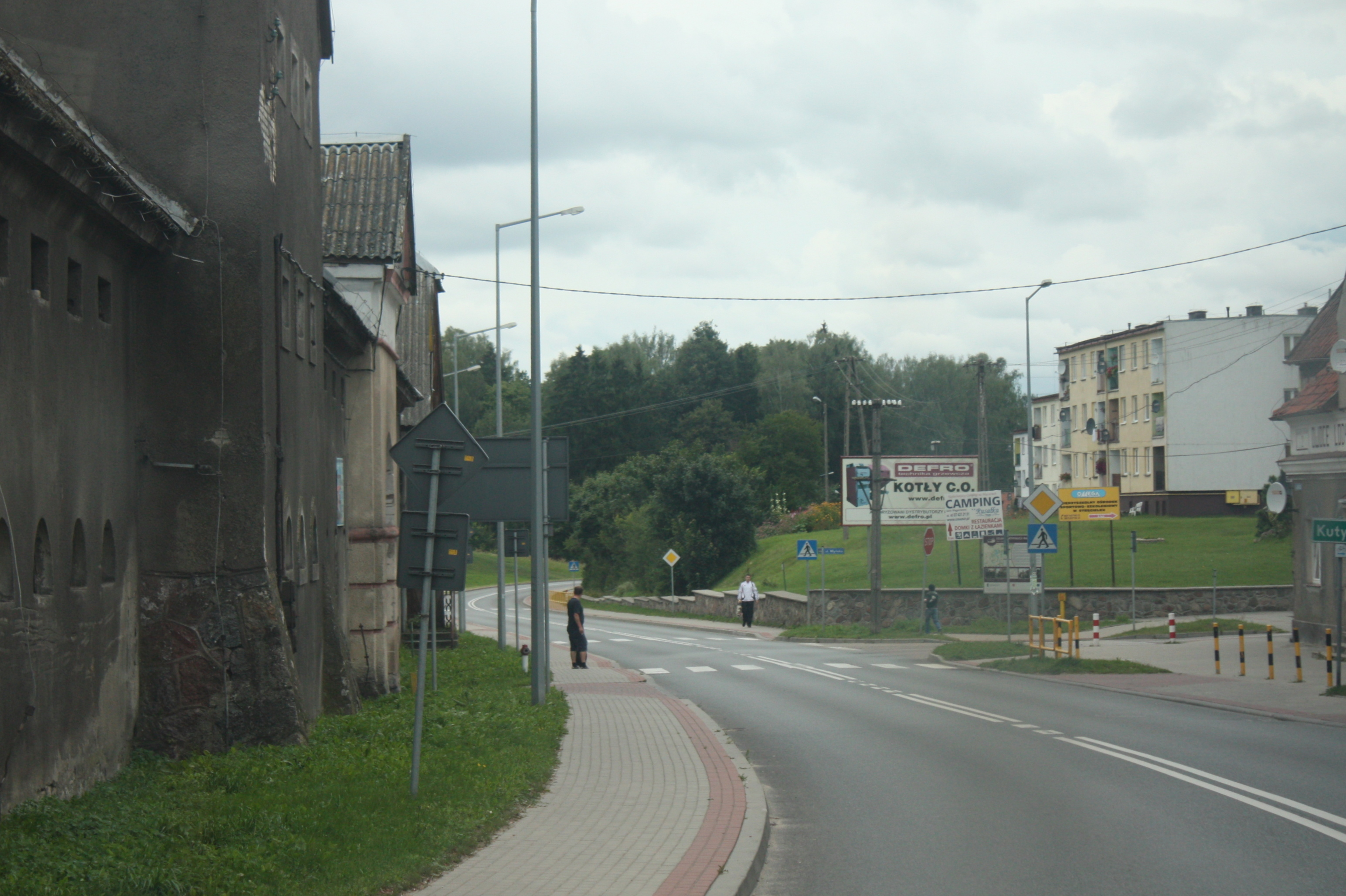 This photo of Warmian-Masurian Voivodeship was taken during Wikiexpedition 2012 set up by Wikimedia Polska Association.You can see all photographs in category Wikiekspedycja 2012. The making of this document was supported by Wikimedia Polska.